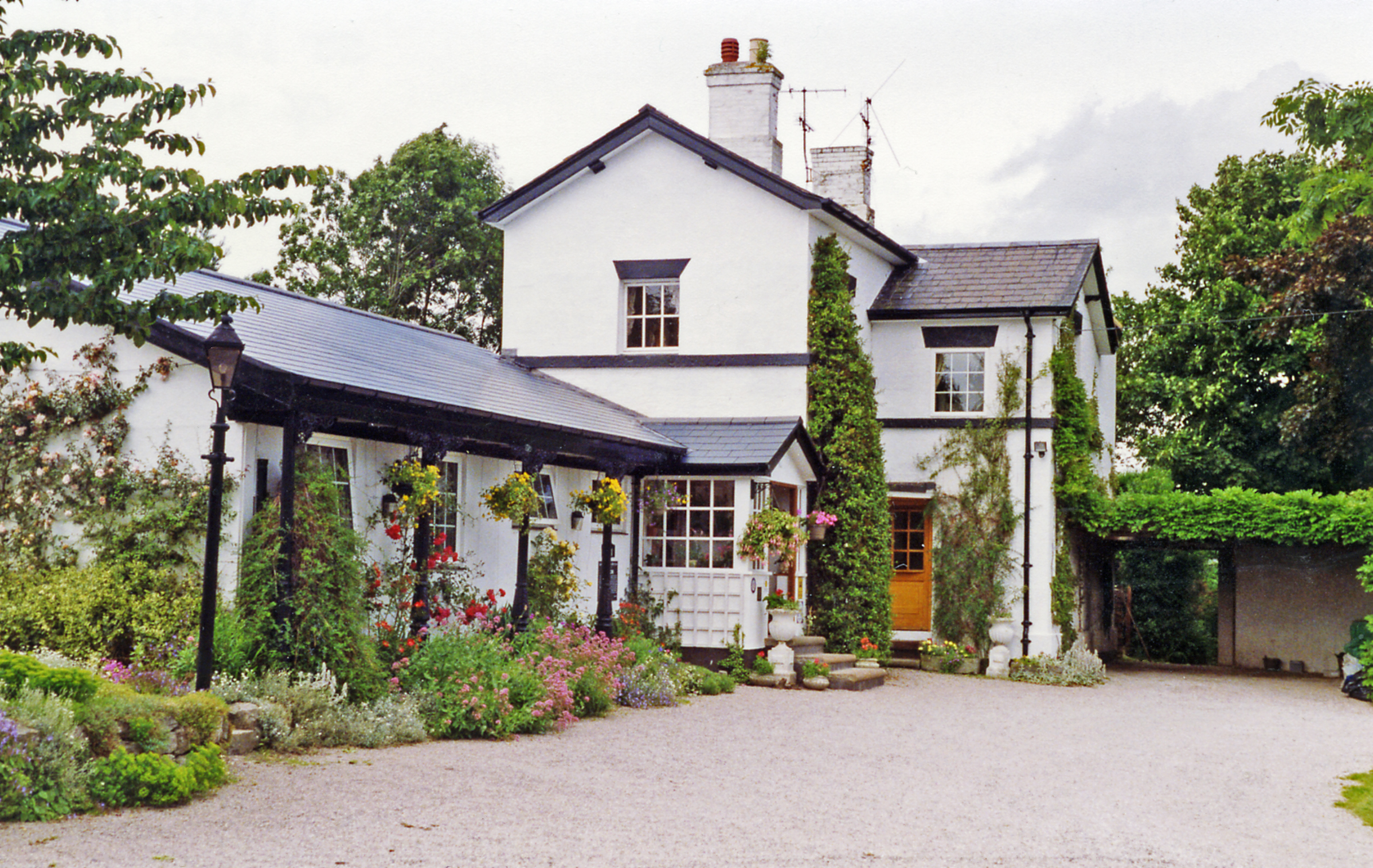 Former Eyarth station, 1993. Northward view of the entrance: ex-LNWR Denbigh - Ruthin - Corwen branch line, closed 2/2/53. Nowadays it is a rather up-market Bed & Breakfast - and I enjoyed my night there